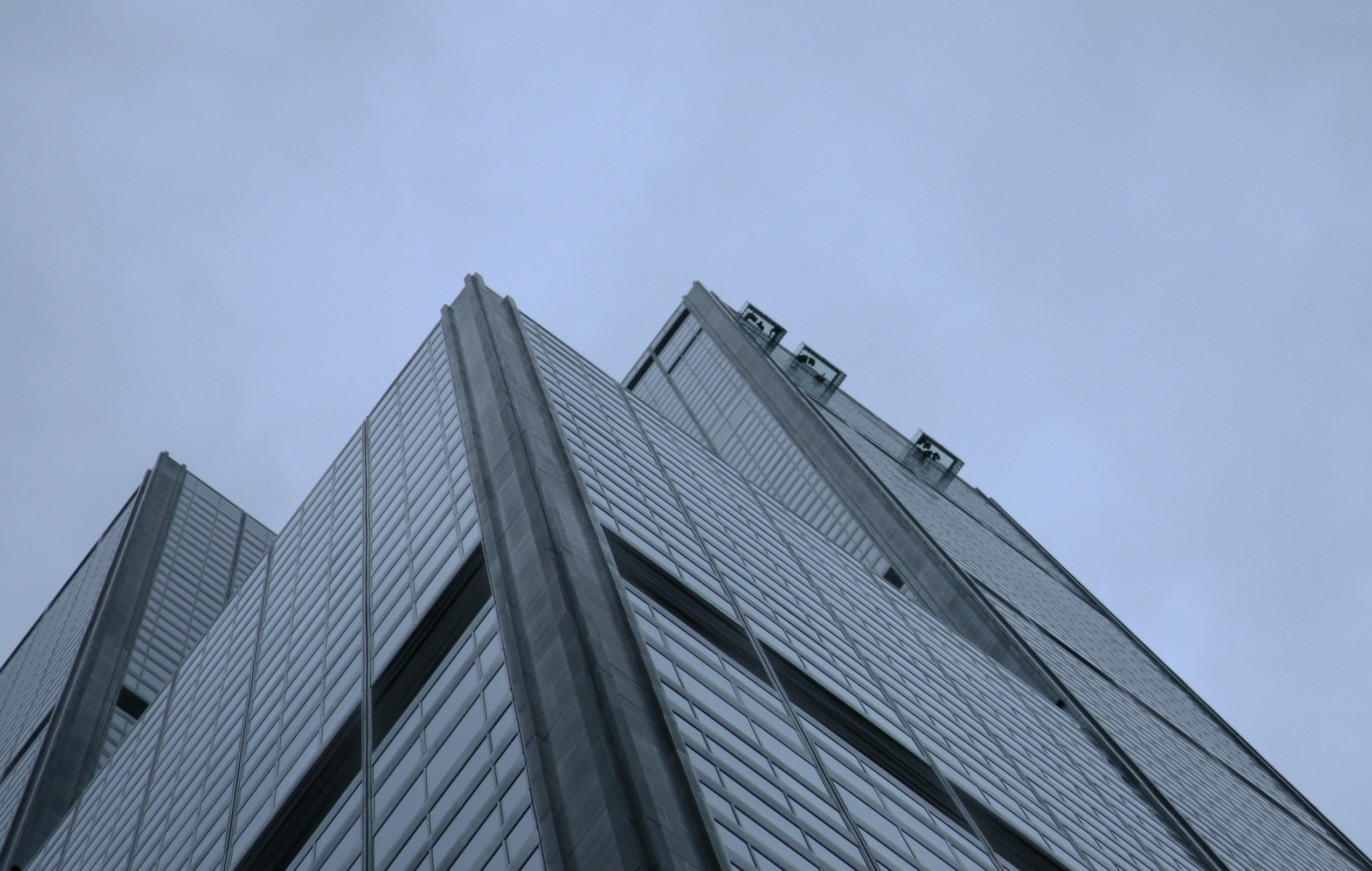 Glass bottom skyboxes on the west facade of the Willis Tower at the 103rd floor seen from street level.